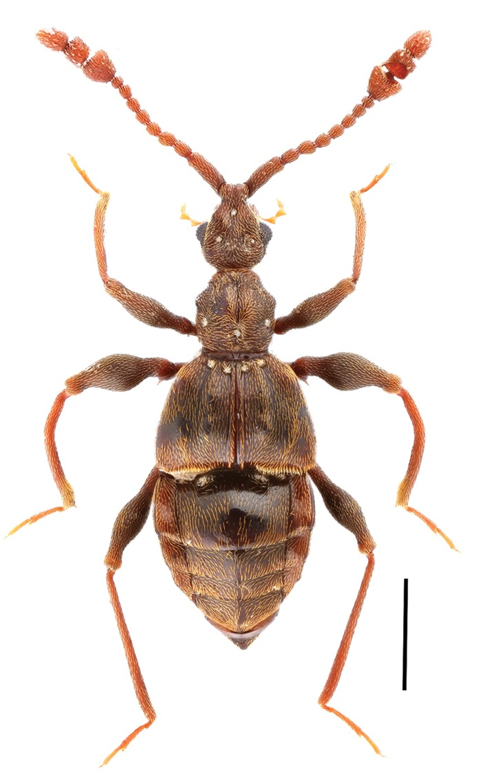 Male habitus of Labomimus mirus. Scale: 1.0 mm.